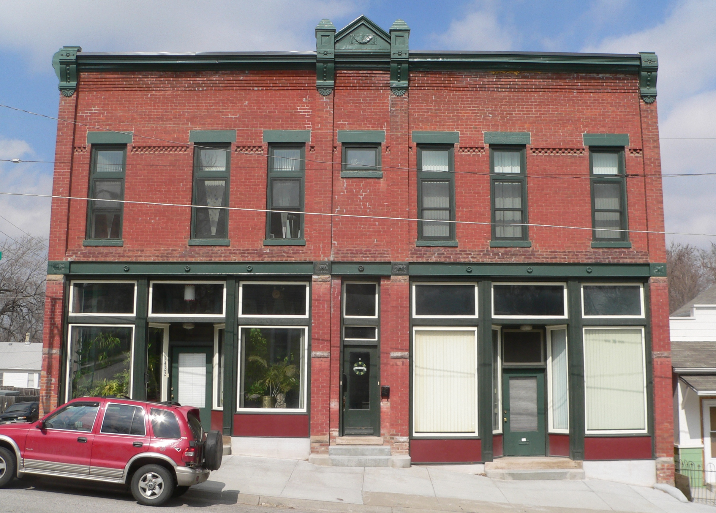 Swoboda Bakery, located at 1422 William Street in Omaha, Nebraska; seen from the south, across William.